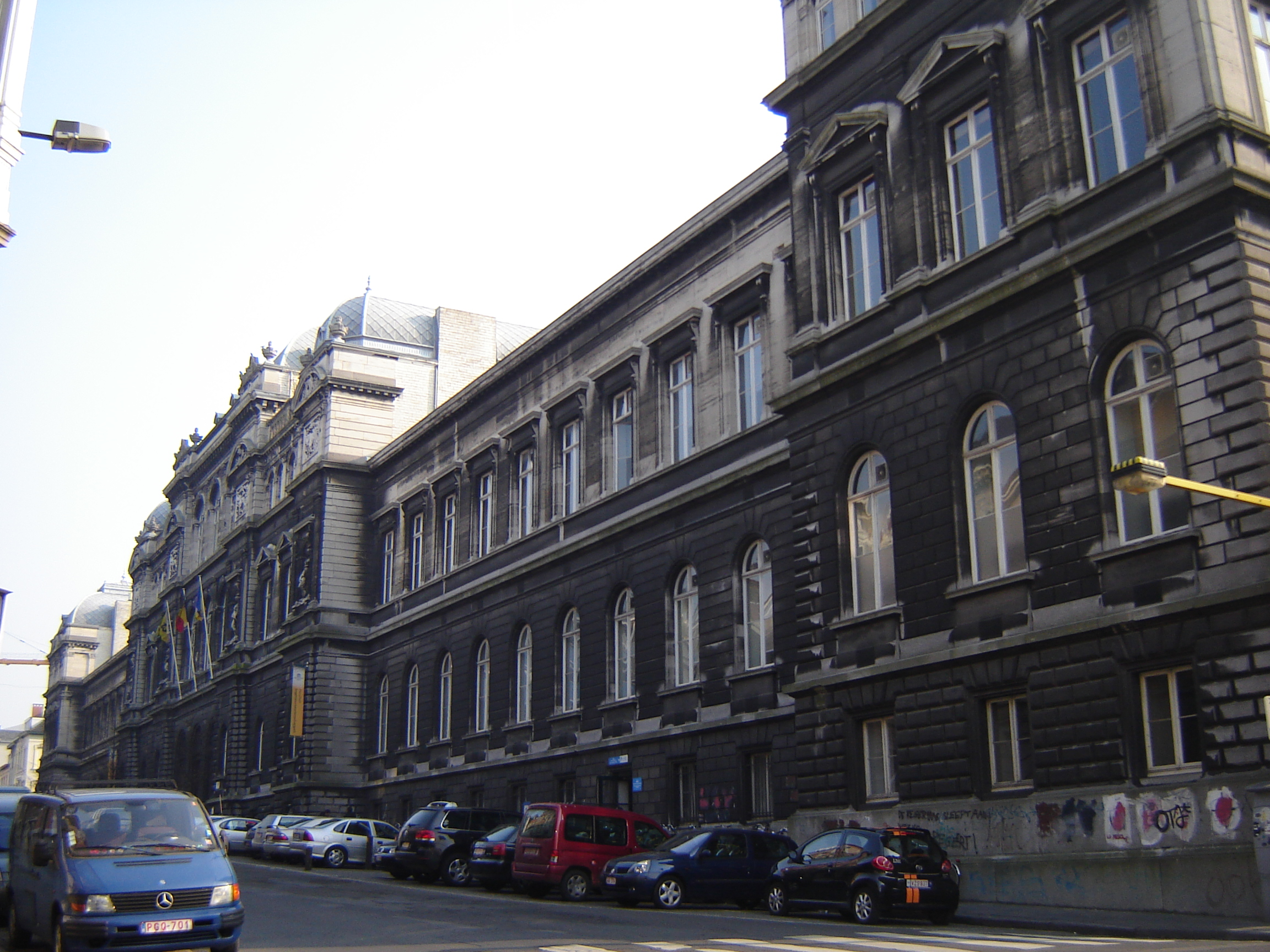 "Instituut der Wetenschappen" (aka Plateau) university building (for engineering/science studies) in de Jozef Plateaustraat street in Gent. Gent, East Flanders, Belgium